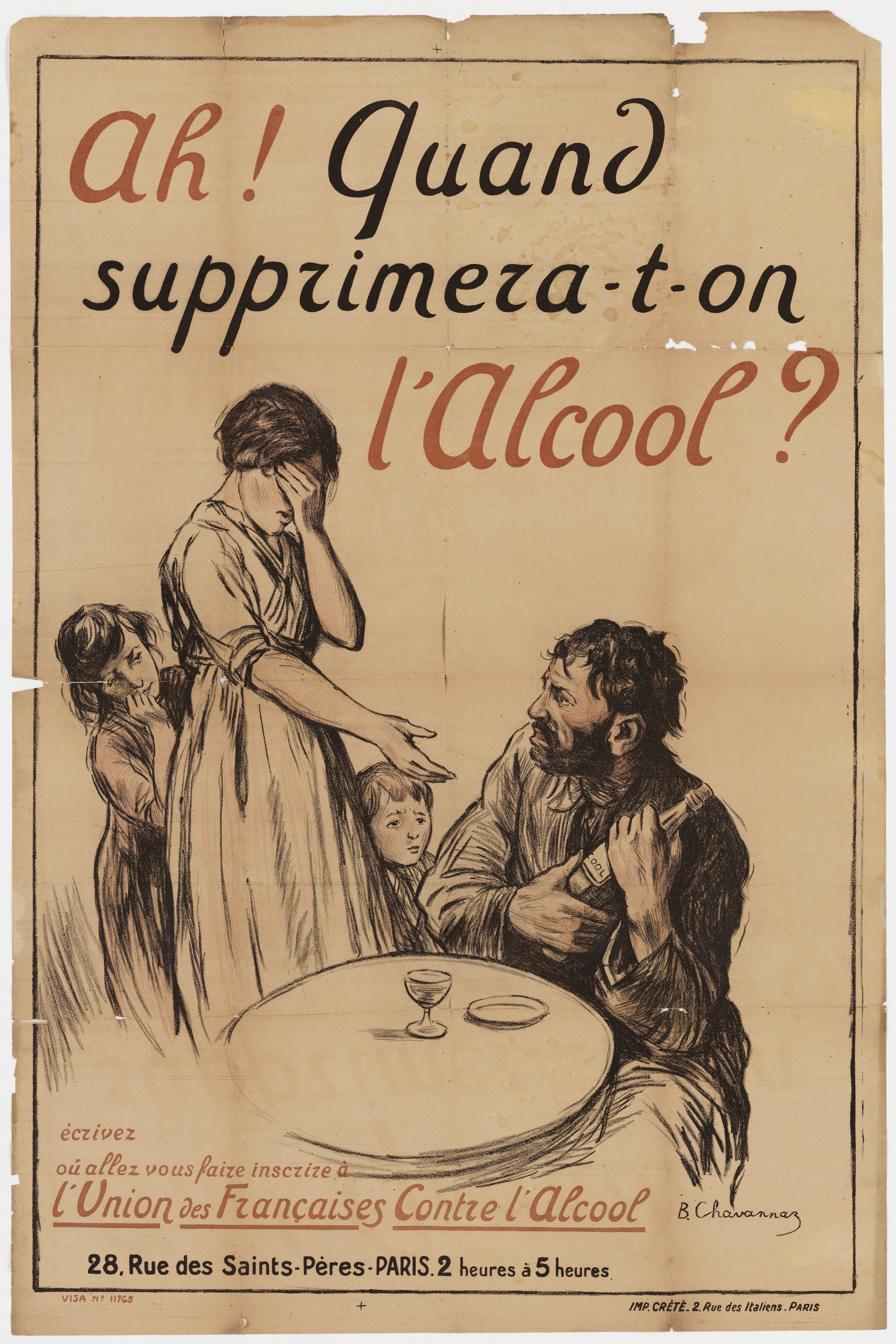 A wife asking her drunkard husband 'Ah! Quand supprimera-t-on l'Alcool?' 'When will you get rid of the alcohol?' [translation] Iconographic Collections Keywords: Drunkeness; B. Chavannaz; Union des Françaises contre l'Alcool.